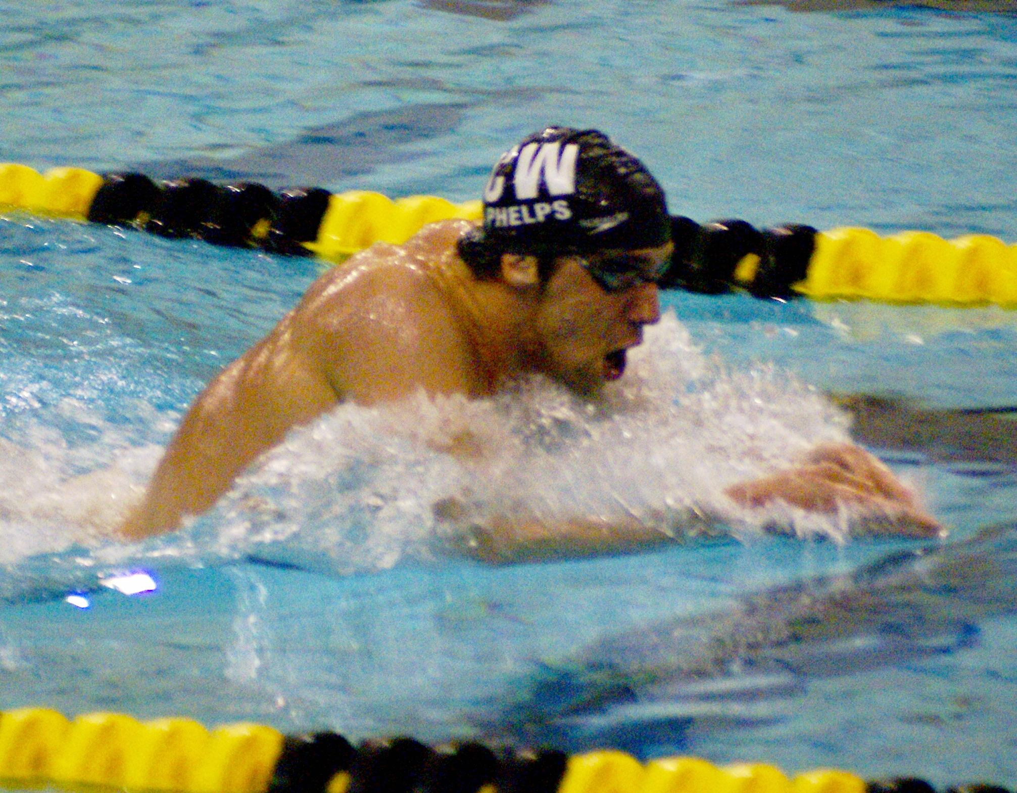 World record holder and olympic gold medalist Michael Phelps in the 400 IM Image is cropped and modified. See other versions.